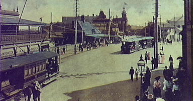 TITLE Newtown Bridge ADDRESS View from Eliza St DESCRIPTION Newtown Bridge is the junction of King St and Enmore Rd, with the rail lines passing underneath. FORMAT Coloured postcard RECORDSERIES Sydney Reference Collection CITATION SRC734 PROVENANCE City of Sydney Archives